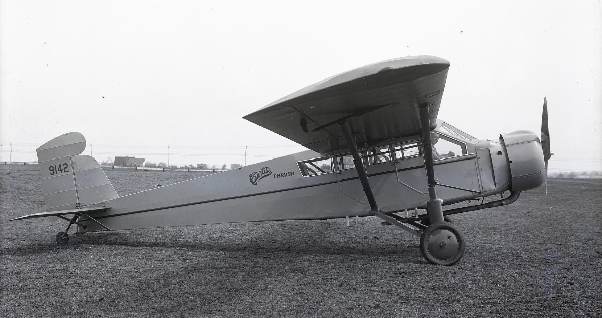 Prototype Curtiss Thrush with Challenger engine in experimental cowling. This aircraft was later used for a women's endurance record flight by Louise Thaden and Frances Marsalis in 1932